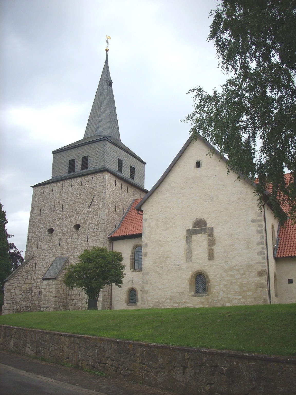 Lühnde (District of Hildesheim, Germany), St. Martin Lutheran Church